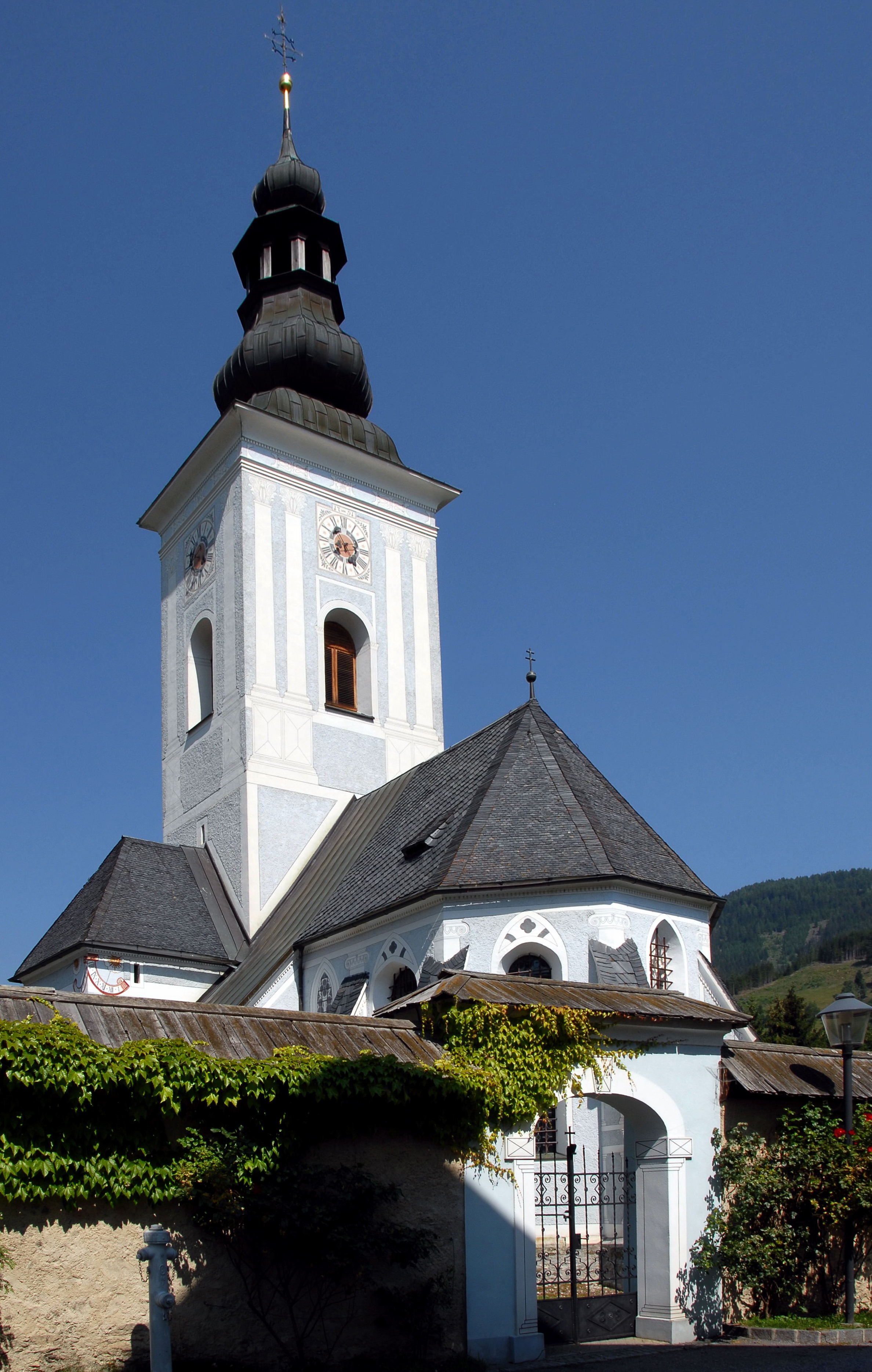 Parish church Saint Leonard with fortified cemetery in Gnesau, municipality Gnesau, district Feldkirchen, Carinthia / Austria / EU